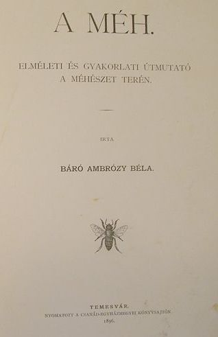 Book of Ambrózy Béla